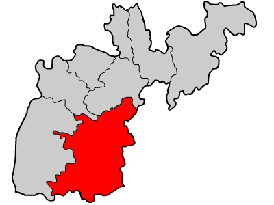 Luga Uezd on the map of Saint Petersburg governorate